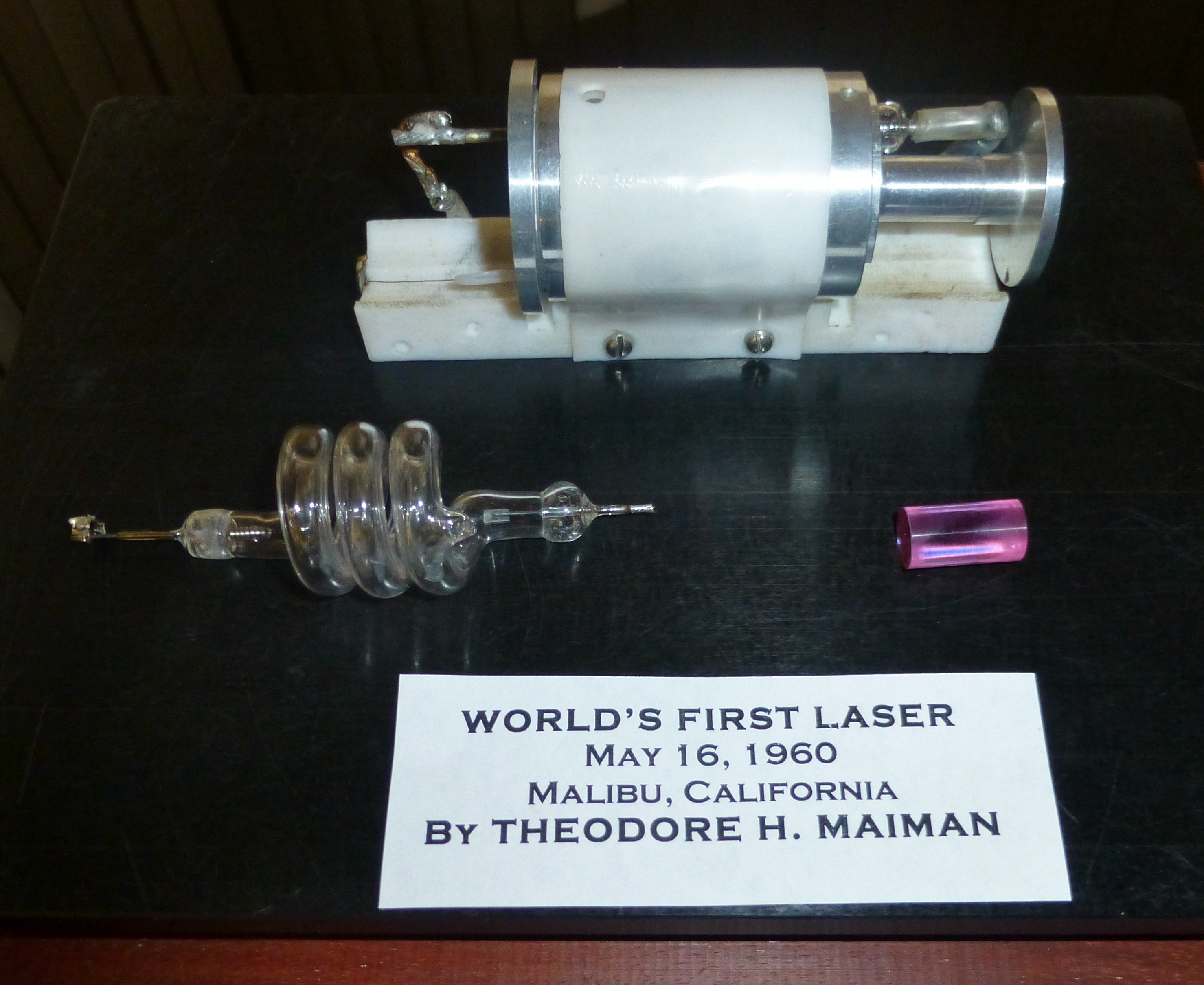 World's first laser created by Theodore Maiman in 1960. Picture taken in 2004 by the creator and his wife in Vancouver, Alberni street.